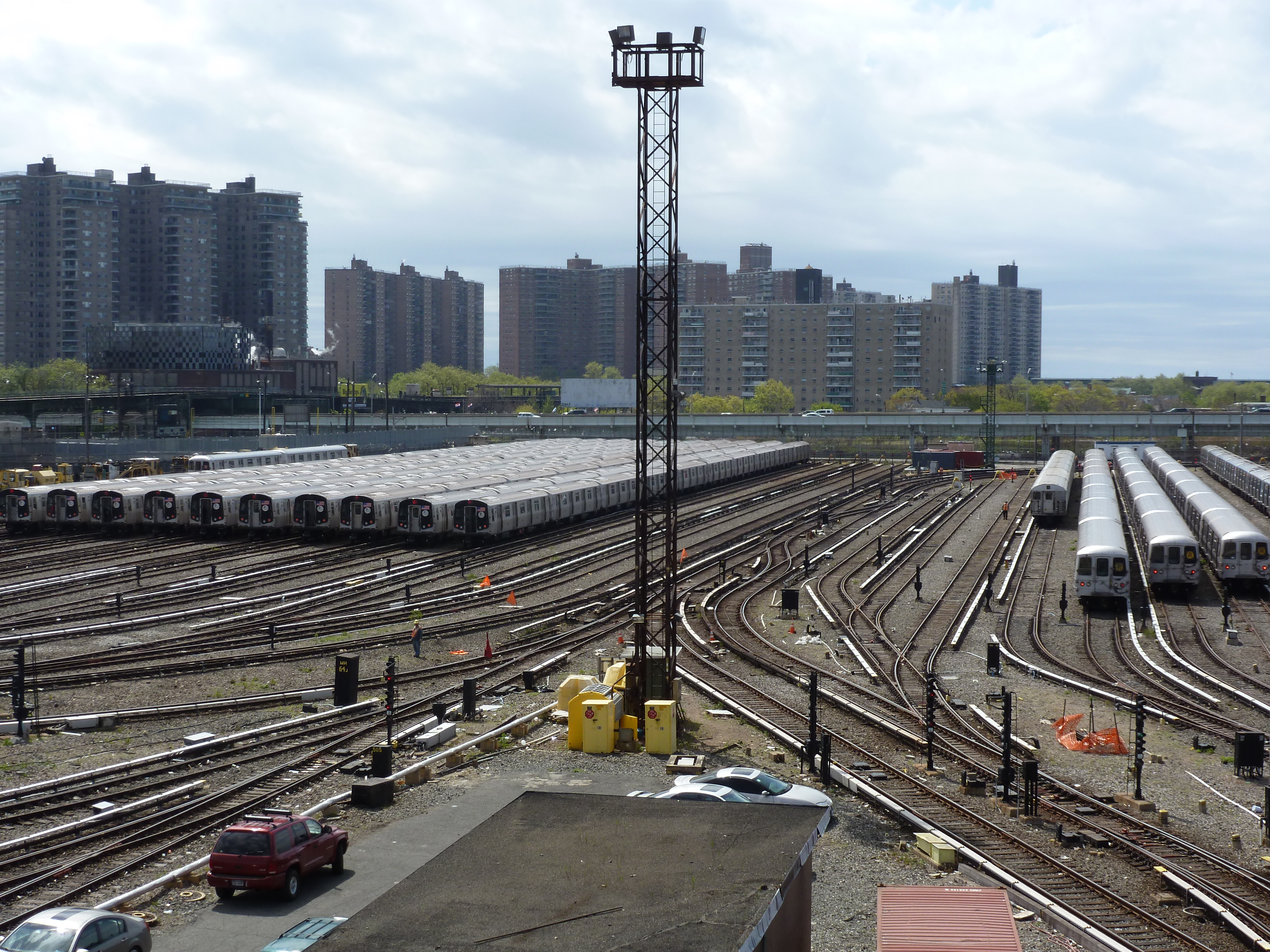 Subway trains in front of the Coney Island Complex